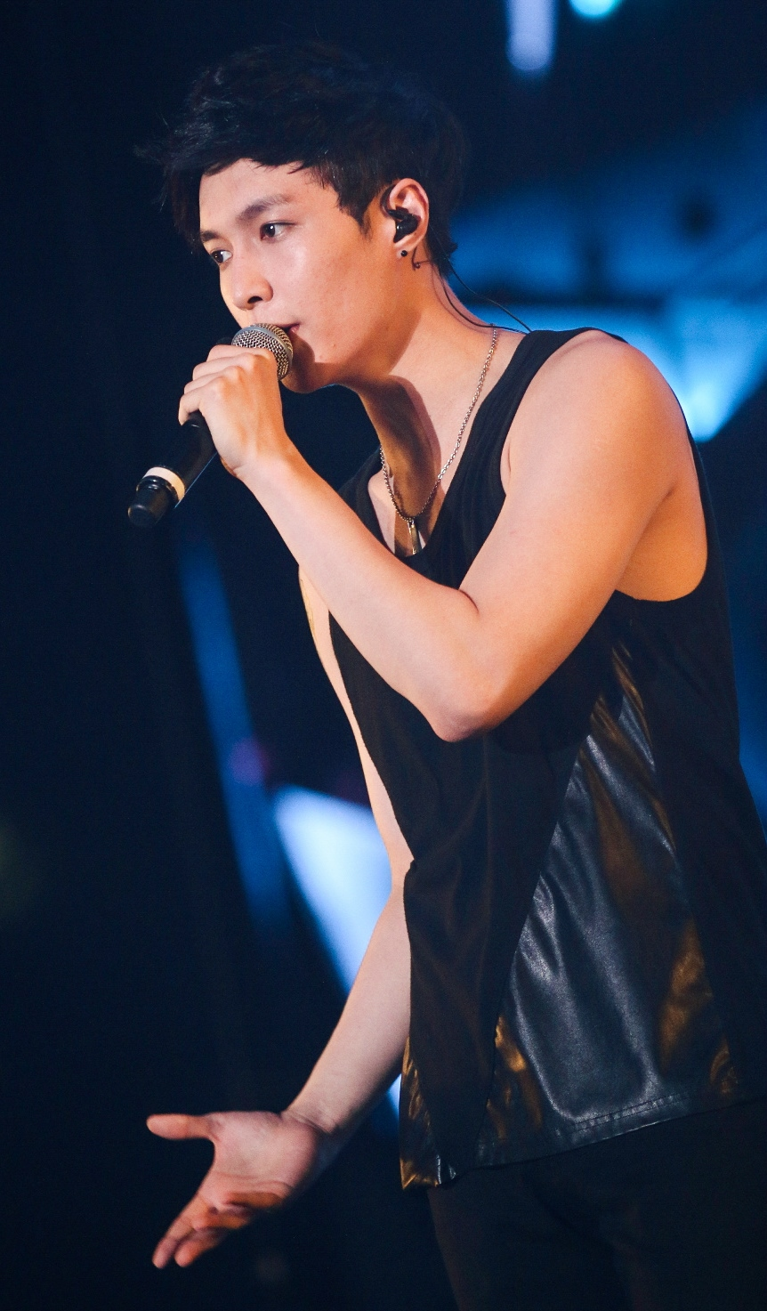 Lay Zhang at the EXO The Lost Planet in Jakarta on September 6, 2014.